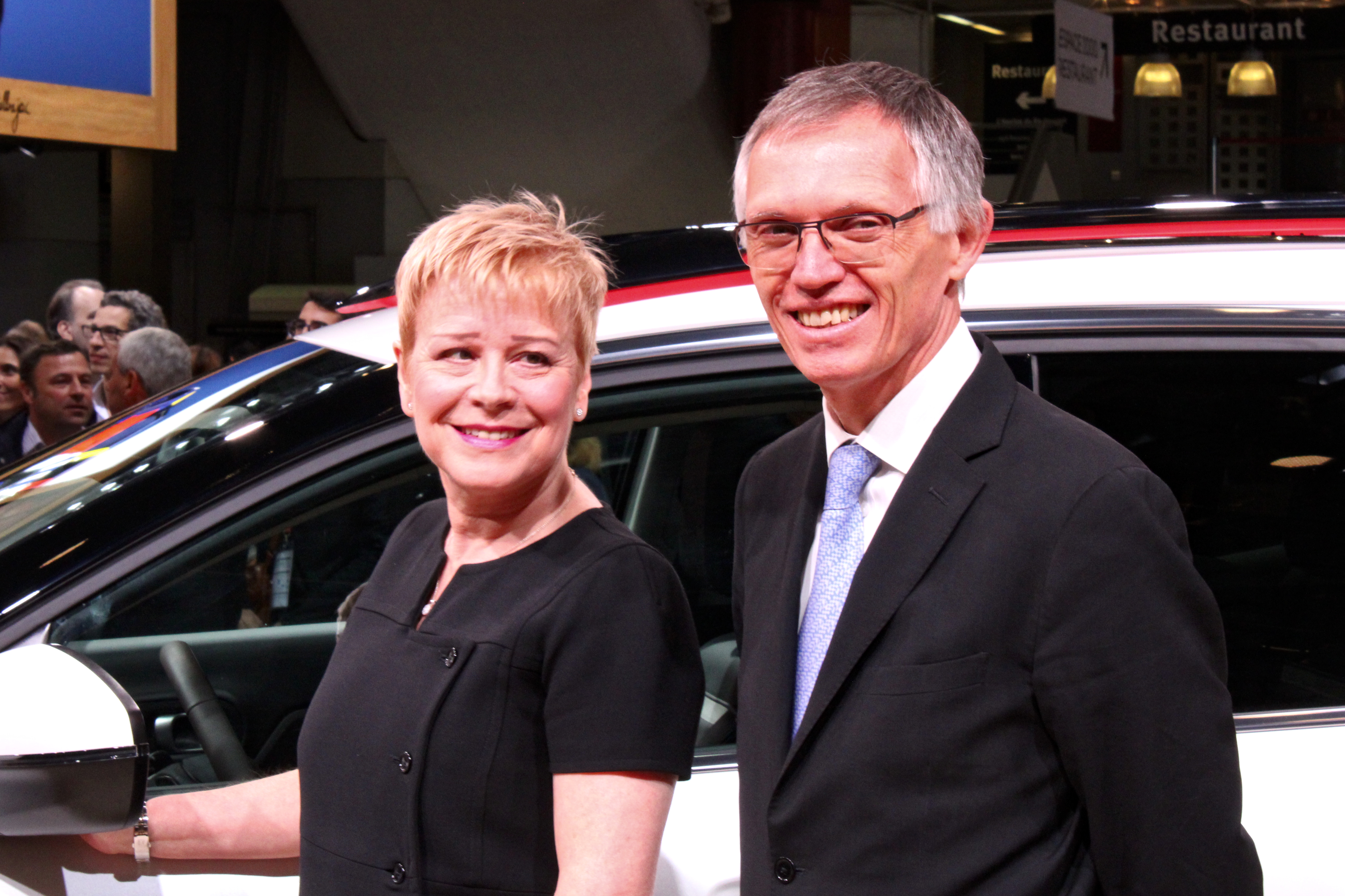 Linda Jackson and Carlos Tavares at Paris Motor Show 2018